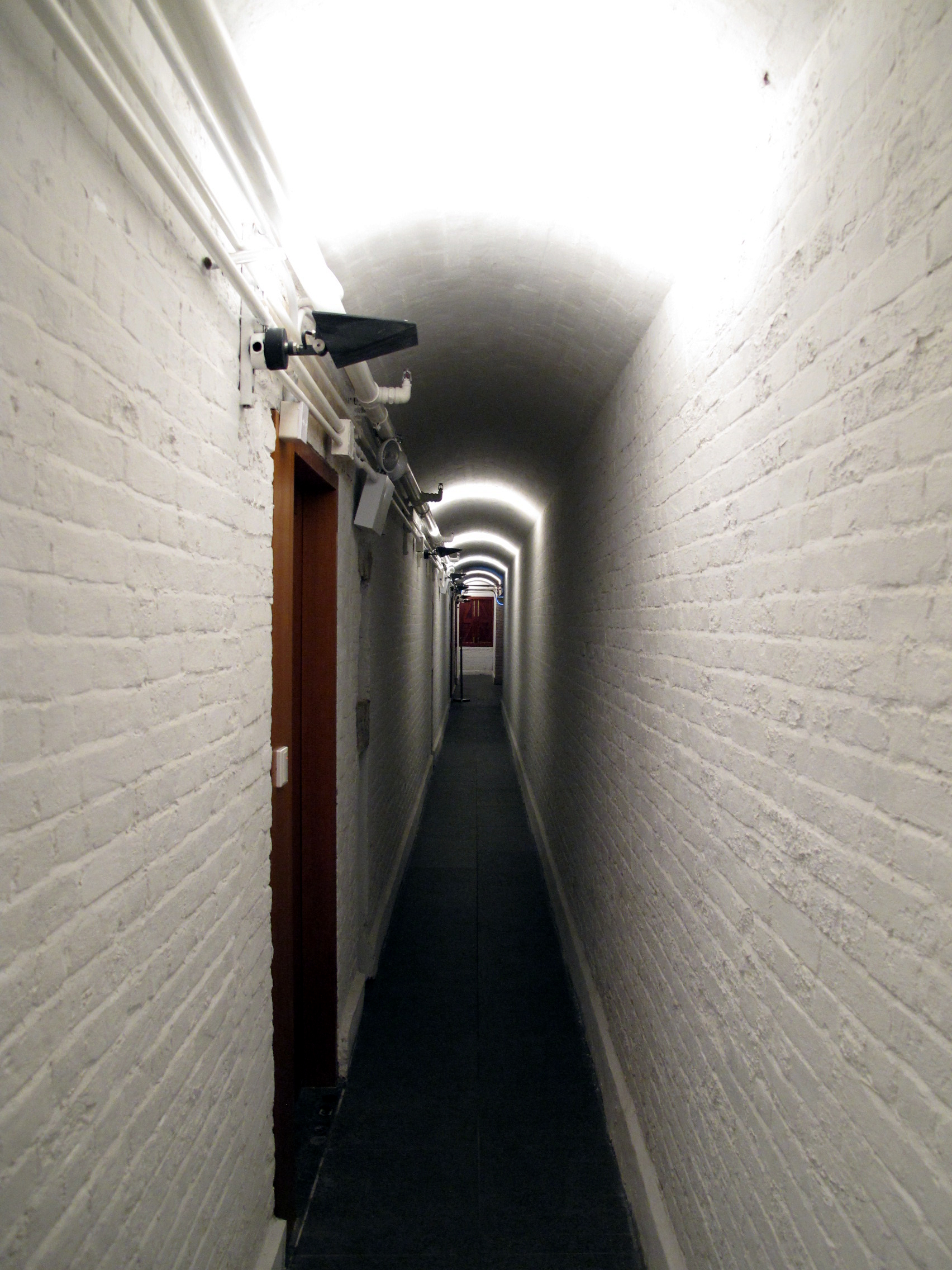 Asia Society Former Explosives Magazine Access